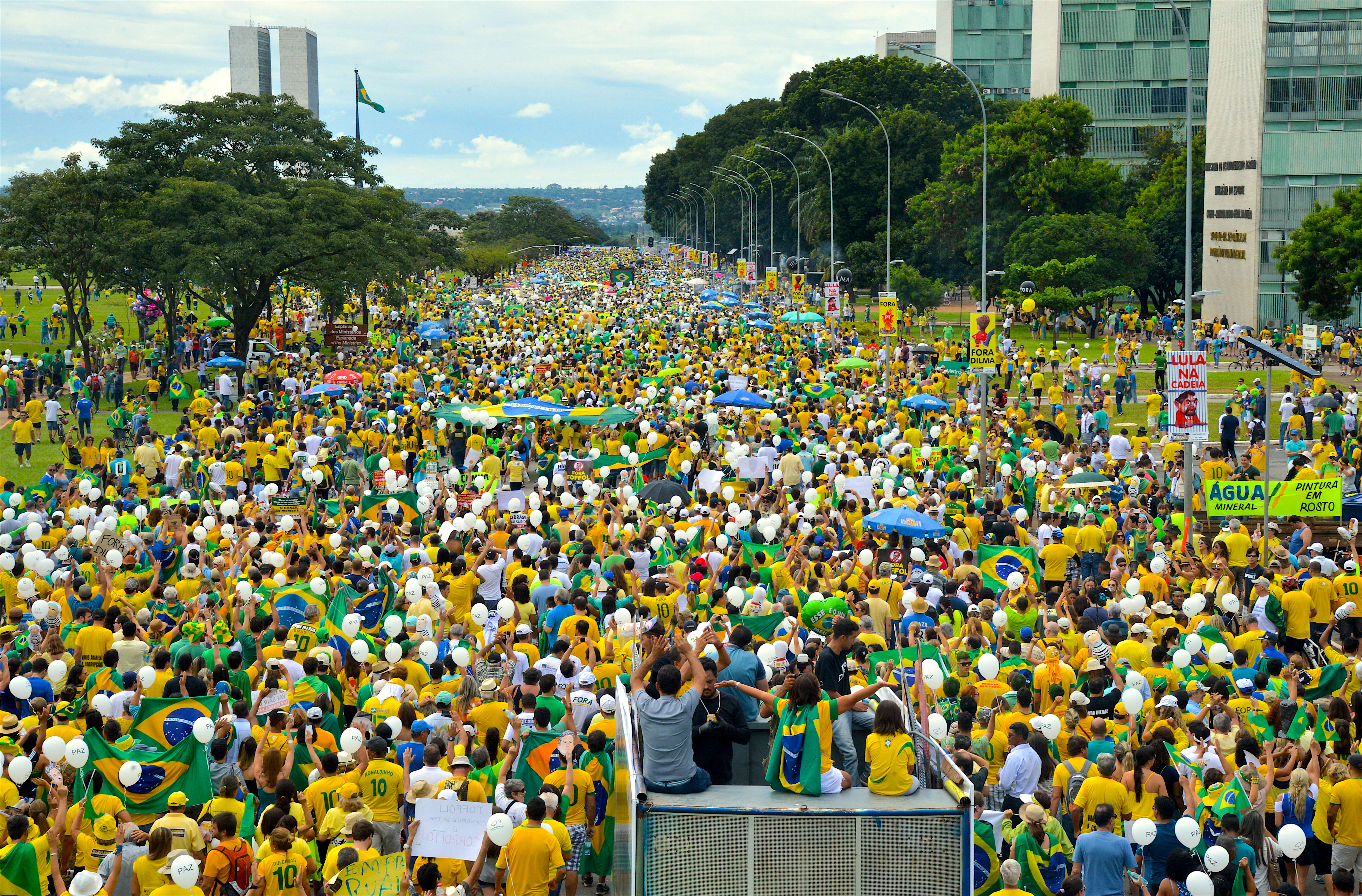 Protesters go to National Congress Palace denouncing corruption and for the departure of President Dilma Rousseff.